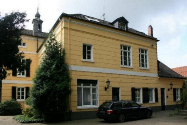 Cultural heritage monument No. 189 in Kempen